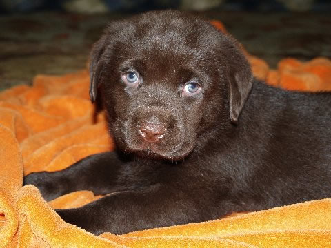 Chocloate Lab puppy